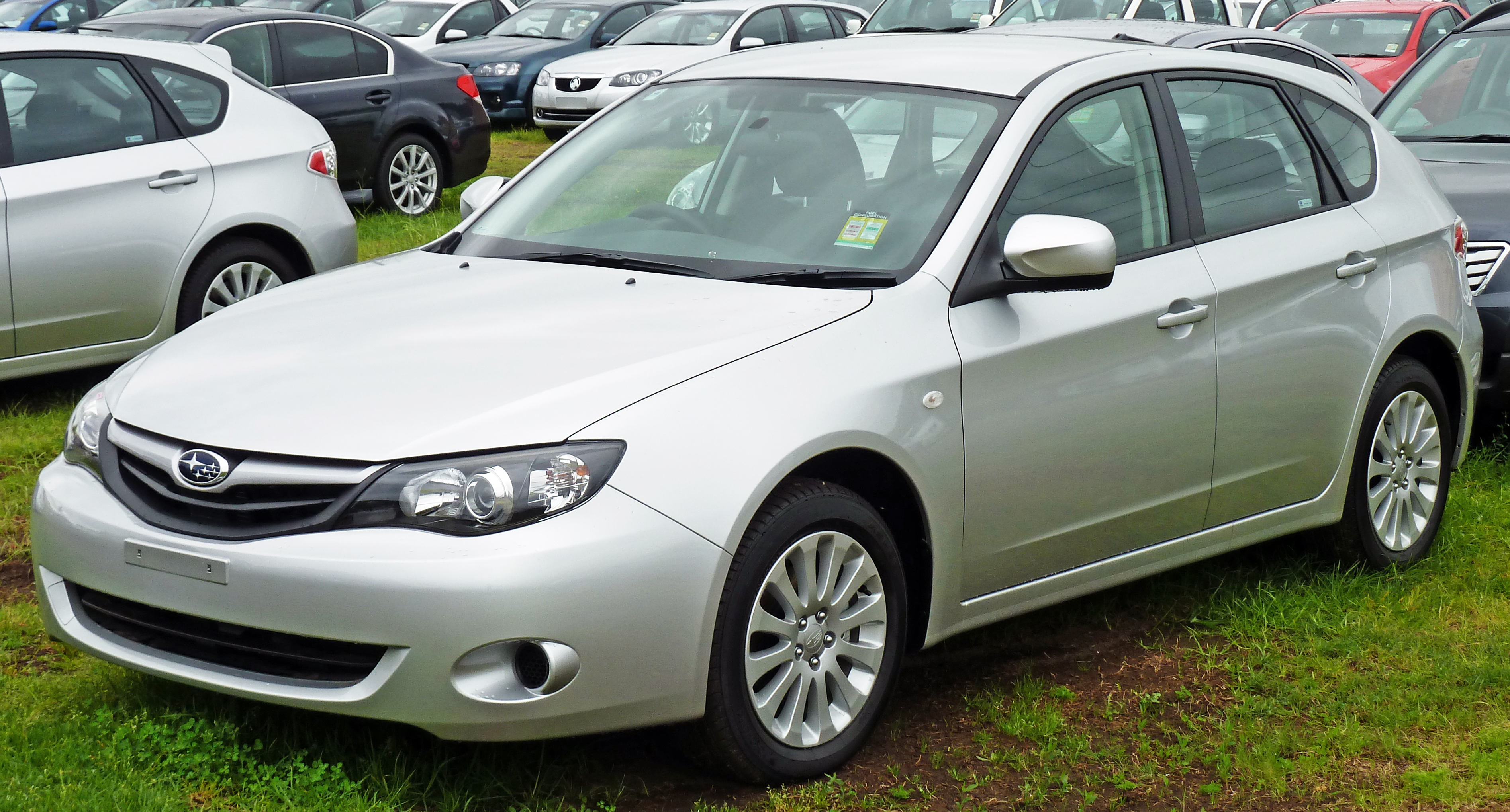 2010 Subaru Impreza (GH7 MY11) RX hatchback. Photographed at Suttons Subaru, Chullora, New South Wales, Australia.